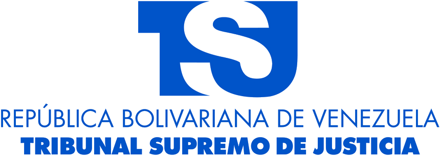 Identifying logo of the Supreme Court of Justice of Venezuela (TSJ).